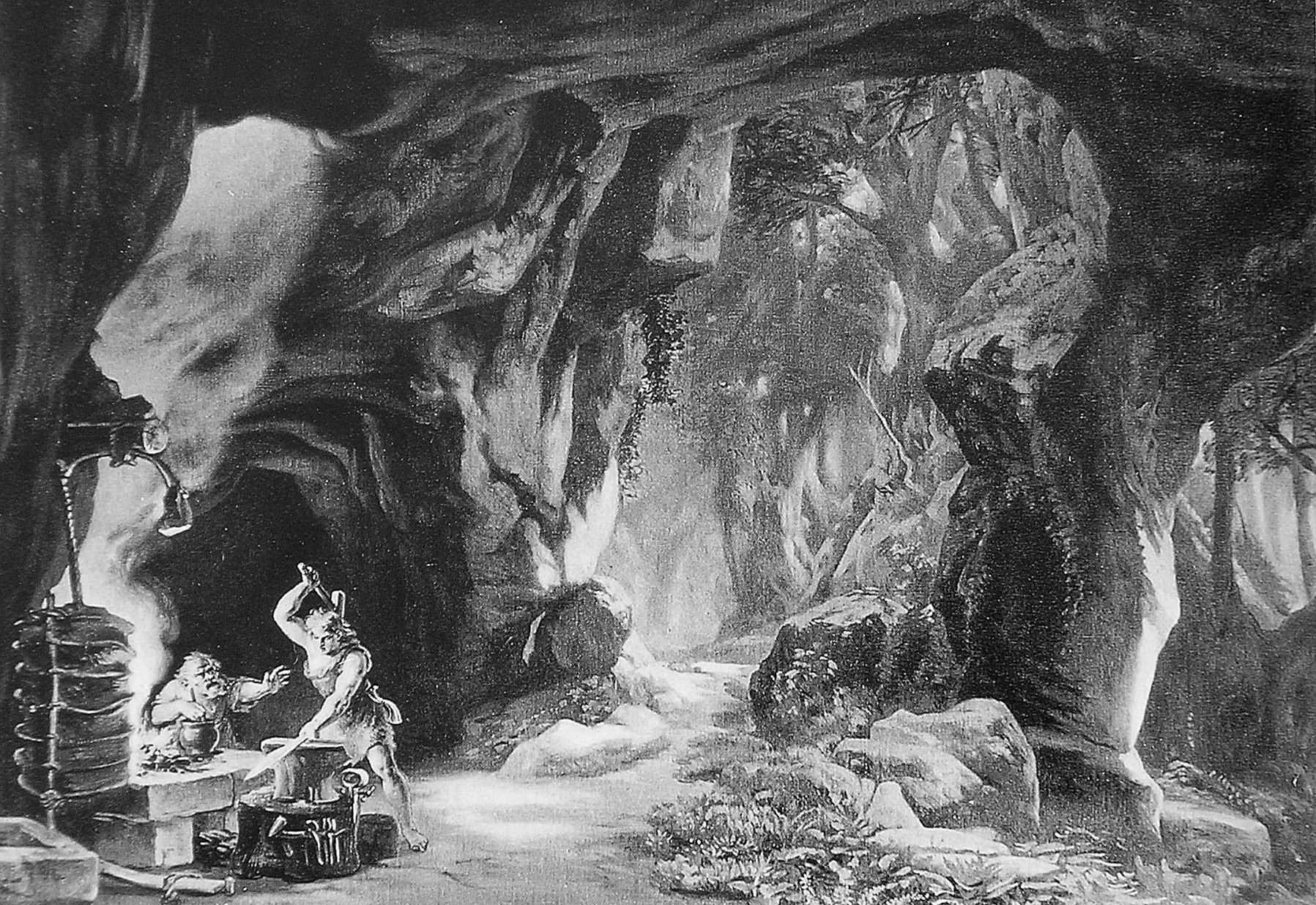 This is a monochrome photograph taken of Hoffman's 14 set designs (number 7) for Wagner's Der Ring des Nibelungen opera in 1876. Hoffman authorized Angerer to publish and sell copies of the photographs.[1] The uploader, JosefLehmkuhl, has failed to specify from where he scanned this image.